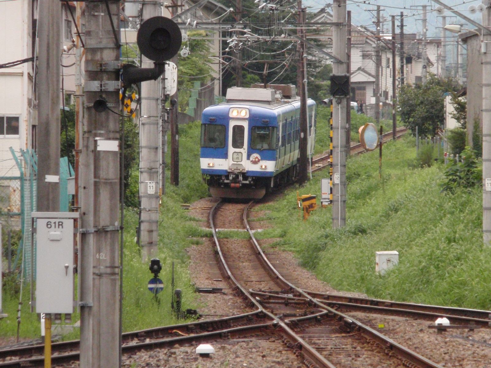 This scene shows Fuji Kyuko Railway EMU type 1200 on slope with an 40 per millage.